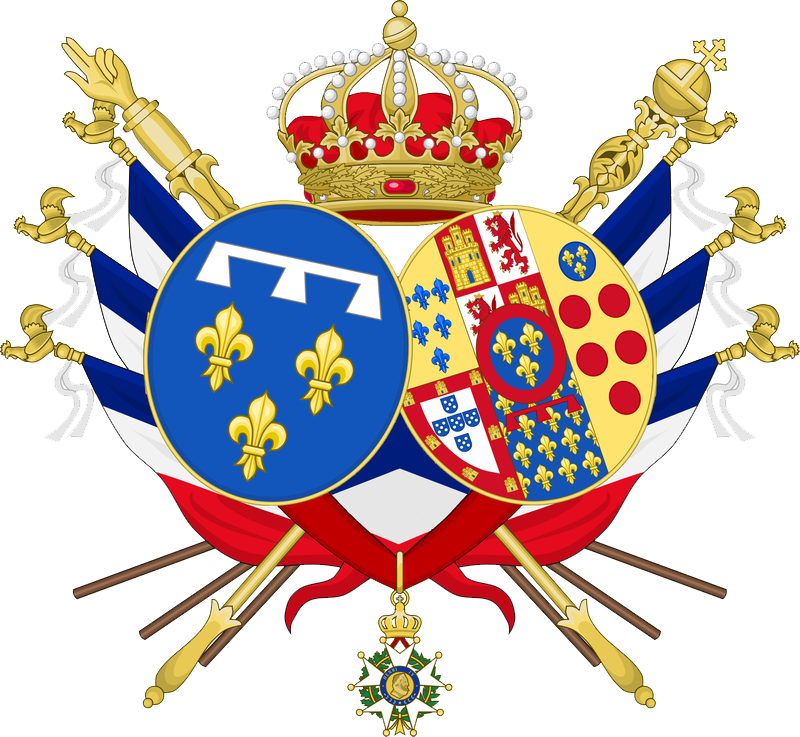 Coat of arms of duchess of Orleans, then "queen of the French", Marie Amélie of the Two Siciles. CoA to improve if necessary.